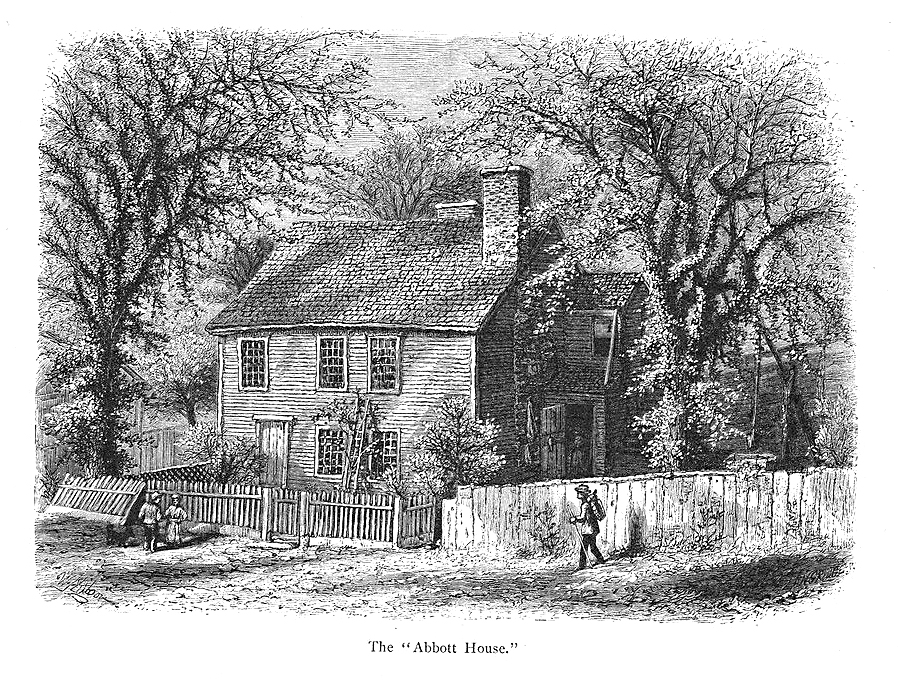 As a result of King Philip's War, the only original house standing is the interesting Roger Mowry tavern, built in 1653 or earlier, called also the Whipple or Abbott house. Guarded by a large elm, it stands on Abbott Street, which runs eastward from North Main. The town council met there, and tradition says Williams conducted prayer-meetings in it. Engraving from 1872 book.